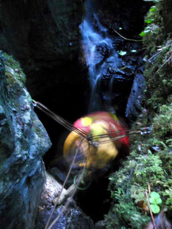 Long-exposure photograph of caver rigging a fixed rope belay, suspended above Noon's Hole entrance pitch; the stream pours over the edge in the background.